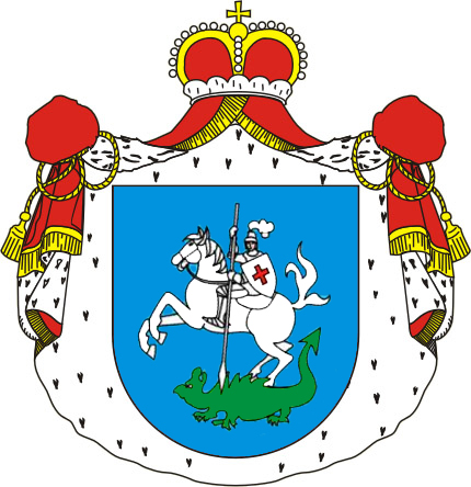 Pogoń Ruska Coat of Arms File:POL COA Pogoń Ruska.svg is a vector version of this file. It should be used in place of this raster image when not inferior. File:Herb Pogon Ruska.jpg File:POL COA Pogoń Ruska.svg For more information, see Help:SVG. In other languages This image was uploaded in the JPEG format even though it consists of non-photographic data. This information could be stored more efficiently or accurately in the PNG or SVG format. If possible, please upload a PNG or SVG version of this image without compression artifacts, derived from a non-JPEG source (or with existing artifacts removed). After doing so, please tag the JPEG version with Superseded|NewImage.ext and remove this tag. This tag should not be applied to photographs or scans. For more information, see BadJPEG . This image shows a flag, a coat of arms, a seal or some other official insignia. The use of such symbols is restricted in many countries. These restrictions are independent of the copyright status.